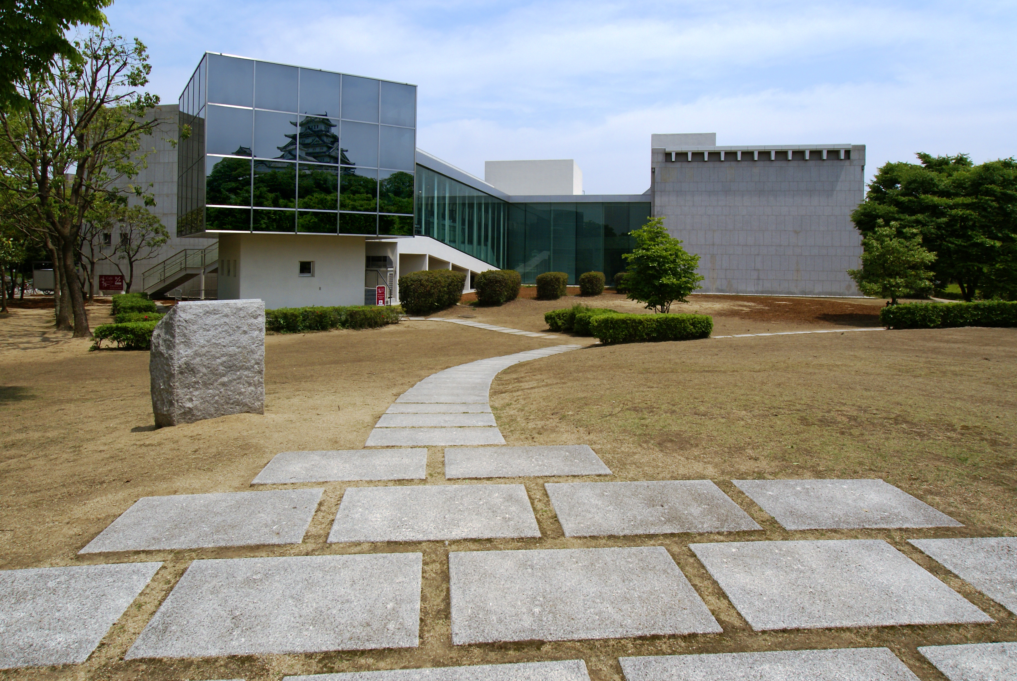 Hyogo Prefectural Museum of History in Himeji, Hyogo prefecture, Japan